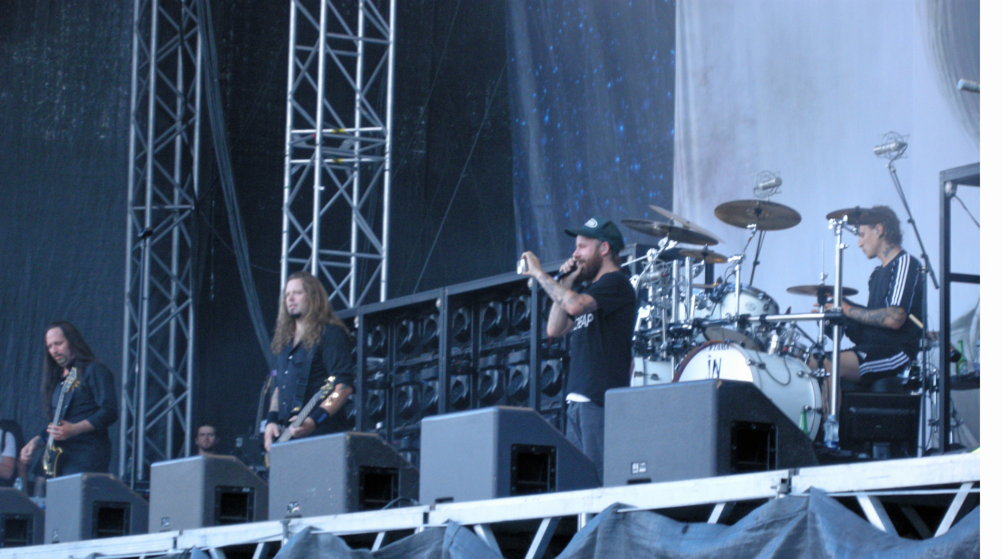 In Flames at Sonisphere Festival, Stockholm, Sweden 2011. Niclas Engelin, Peter Iwers, Anders Fridén and Daniel Svensson